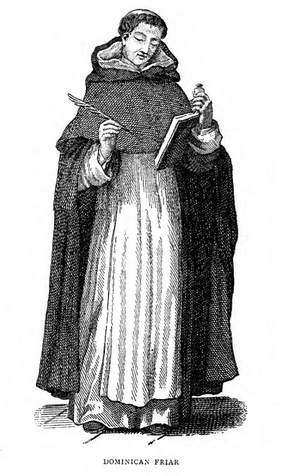 Dominican friar - Published in London